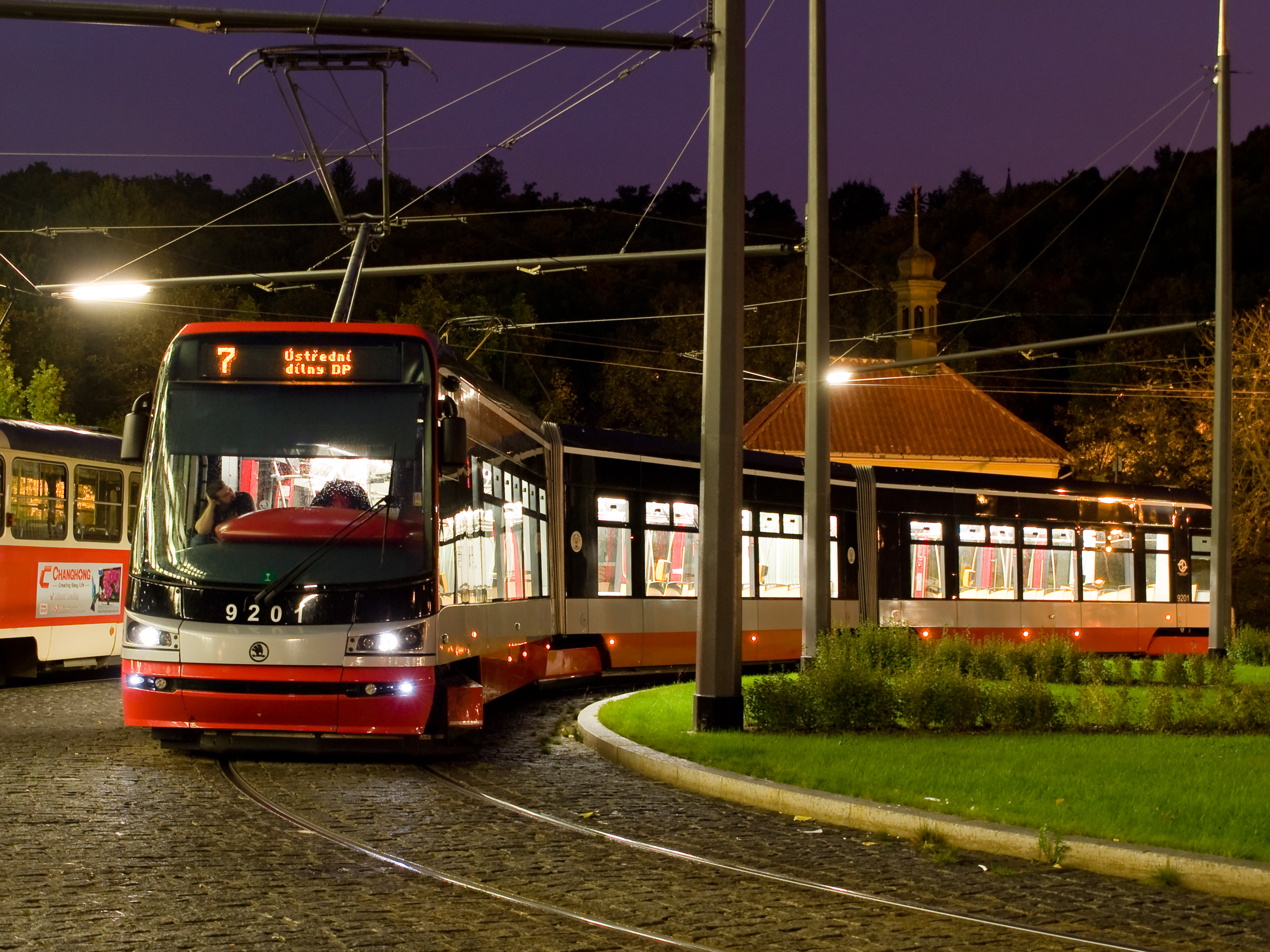 Škoda 15T in Radlická tram loop; first day of operation this type of tram with passengers in Prague.